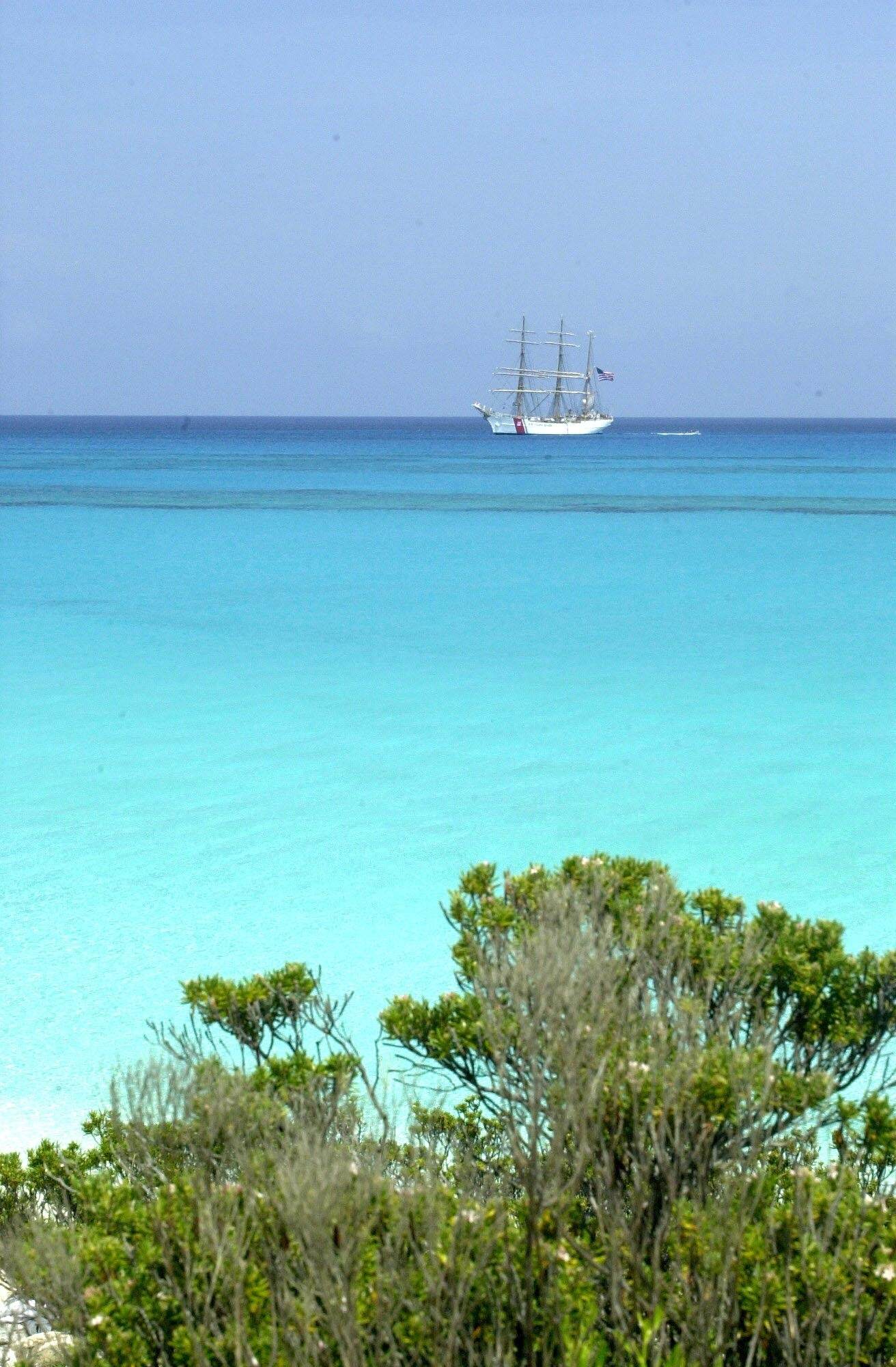 CONCEPTION ISLAND, Bahamas (June 2002)--The Coast Guard Barque Eagle is anchored off Conception Island, Bahamas June 2002. The Eagle used both of its motor surf boats and its rigid-hull inflatable boat to bring its crew through the crystal clear water to the white sandy beaches. At the end of the day, the Eagle left anchor using only the power of the wind, a mignificent feat for all square-rigger sailors to boast. USCG photo by PA3 DAna Warr